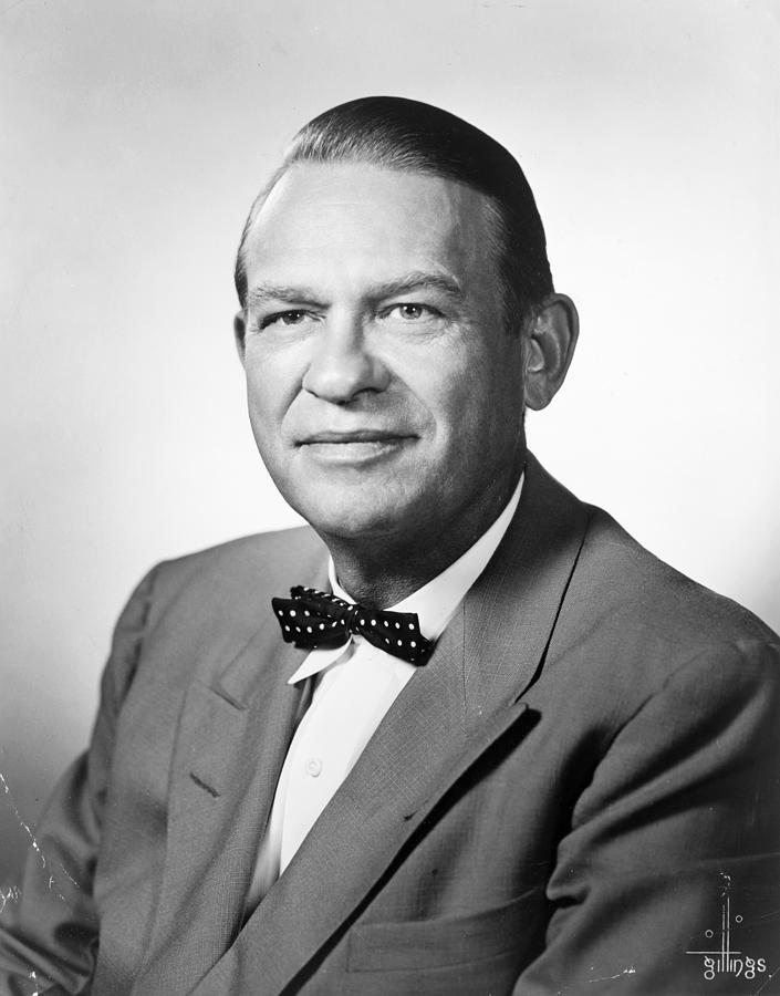 Martin Dies, Jr. (November 5, 1900–November 14, 1972), Texas politician member of the United States House of Representatives. Official Congress portrait.